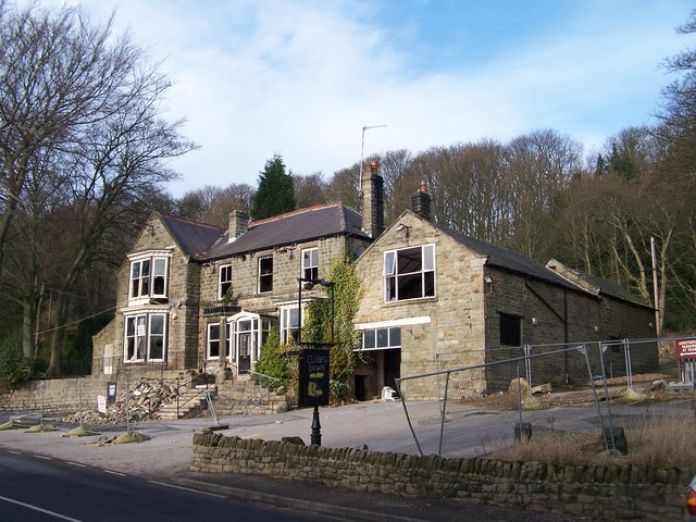 Norfolk Arms, Manchester Road (A57) , Near Sheffield. This picture was taken 5 months after that submitted by David Lally ... but there doesn't seem to be much progress! Instead this lovely historic building is just crumbling and rotting away ... shame 'cos a new building would not have the same character or history. Tens of thousands of hikers - on foot, on the bus(as the links show), or in their cars! - would have visited this pub over the years 938067 102113